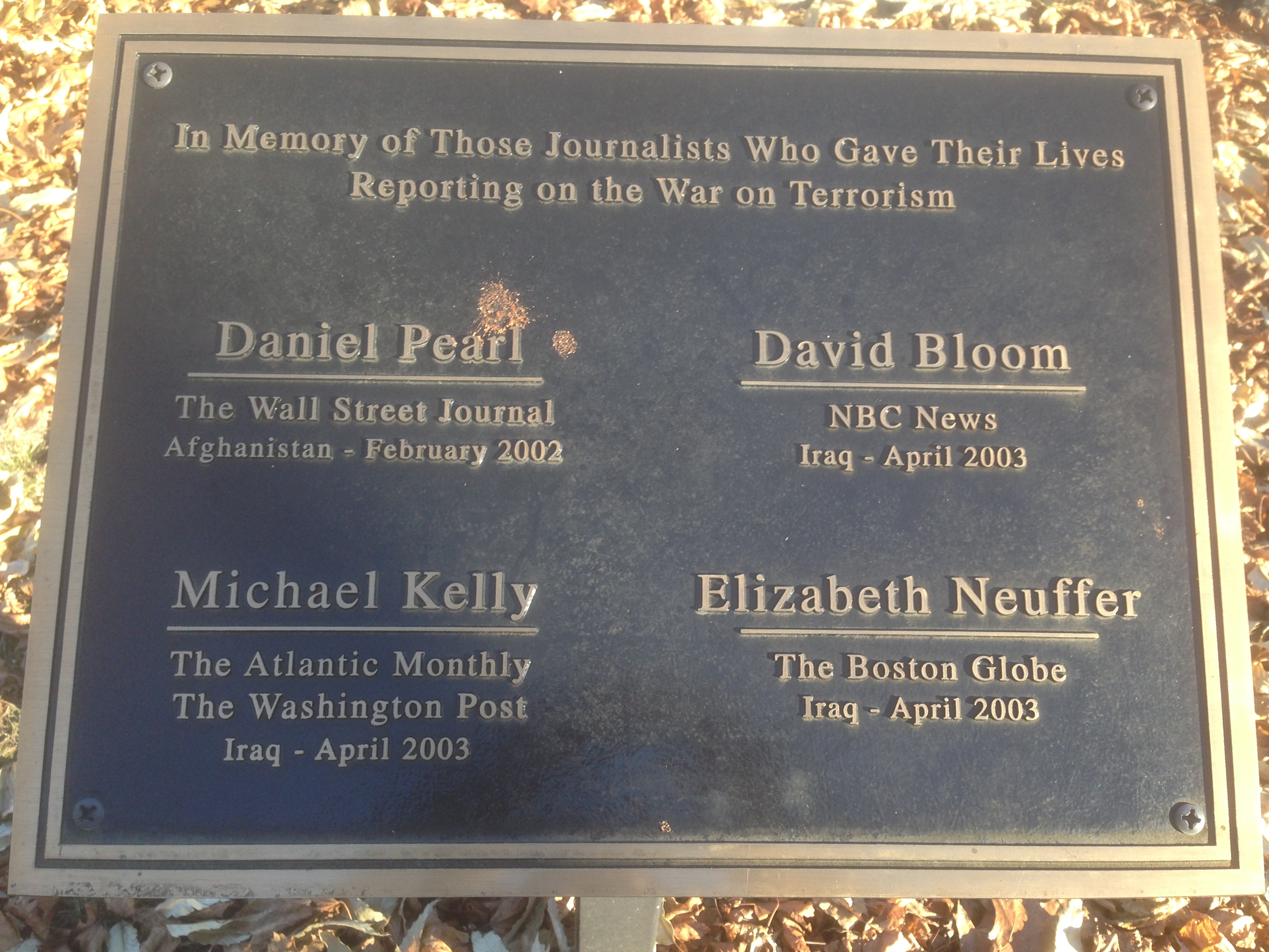 Daniel Pearl, David Bloom, Michael Kelly, Elizabeth Neuffer remembered in bronze at War Correspondents Memorial at Gathland State Park in Maryland.